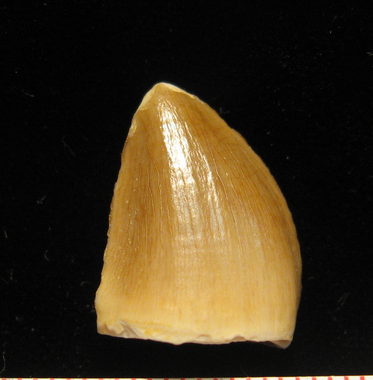 A 1.7cm tall tooth from Liodon anceps. Cretaceous, Phosphate beds, Kouribga, Morocco.